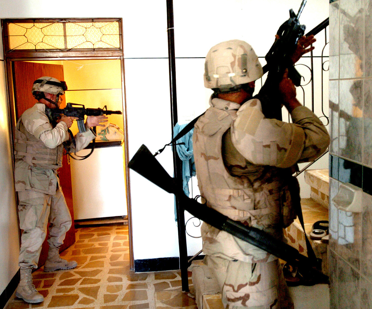 Soldiers from the 3rd Armored Cavalry Regiment search for insurgents in Tal Afar, Iraq. This photo appeared on Original description: U.S. Army Soldiers with 3rd Armored Cavalry Regiment conduct a routine security mission in Tal Afar, Iraq, Sept. 13, 2005. Iraqi army security forces with assistance from the 3rd Armored Cavalry Regiment provide security for the region of Tal Afar in order to disrupt insurgent safe havens and to clear weapons cache sights in the area of operation.